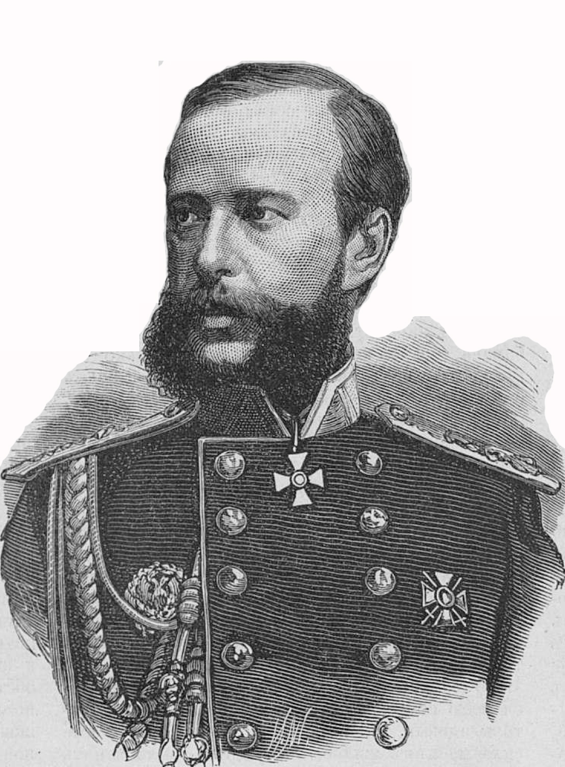 Imeretinsky, Aleksandr Konstantinovich.